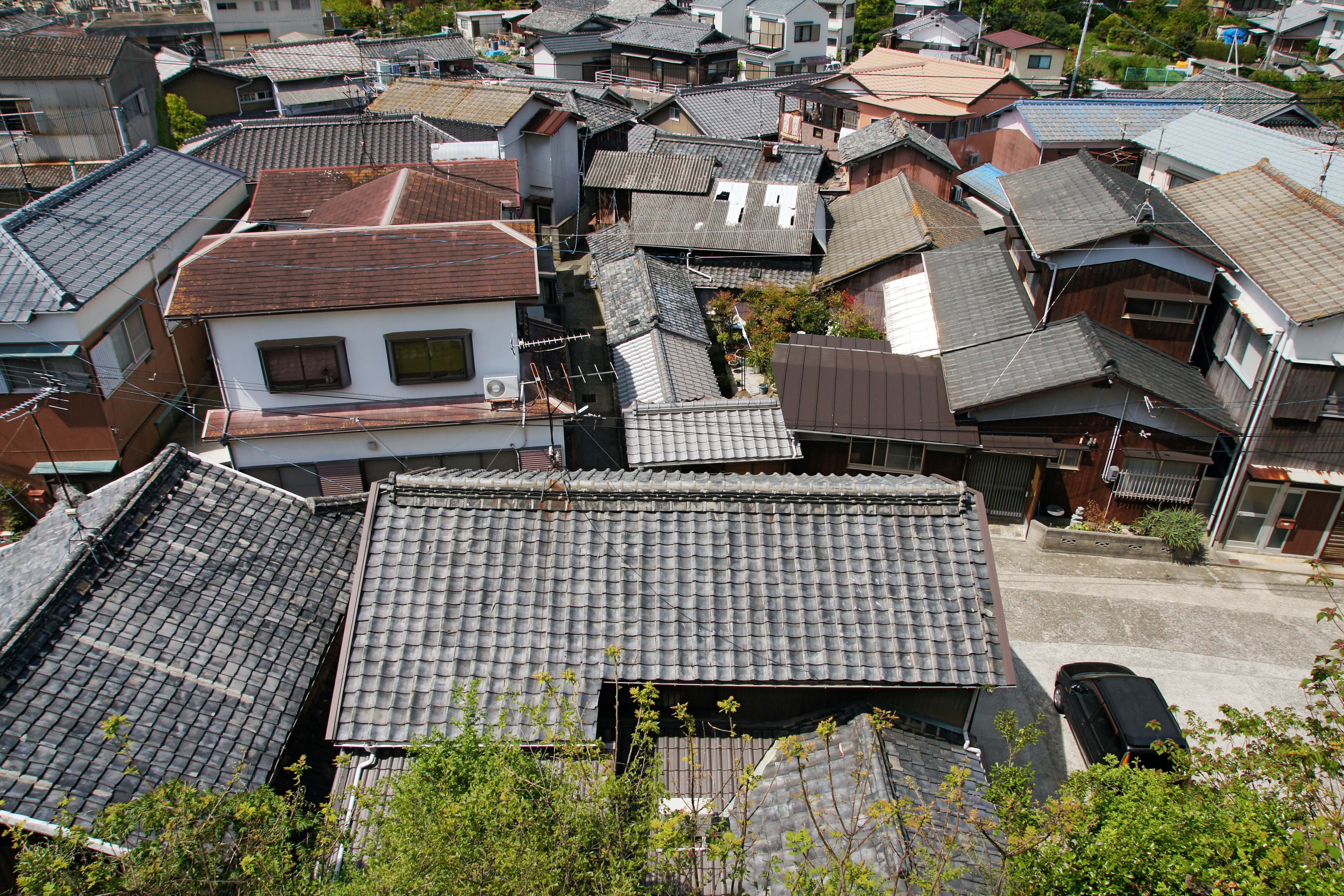 Meiro-no-machi, Tonosho, Kagawa prefecture, Japan